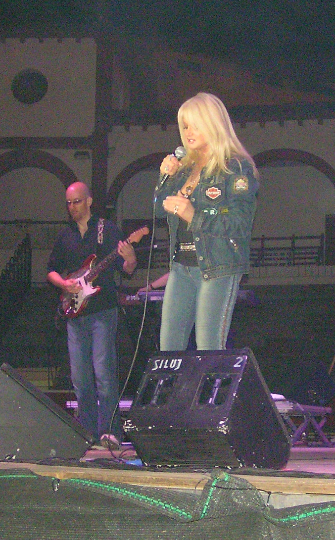 Bonnie Tyler in a Spanish concert in July 2006.